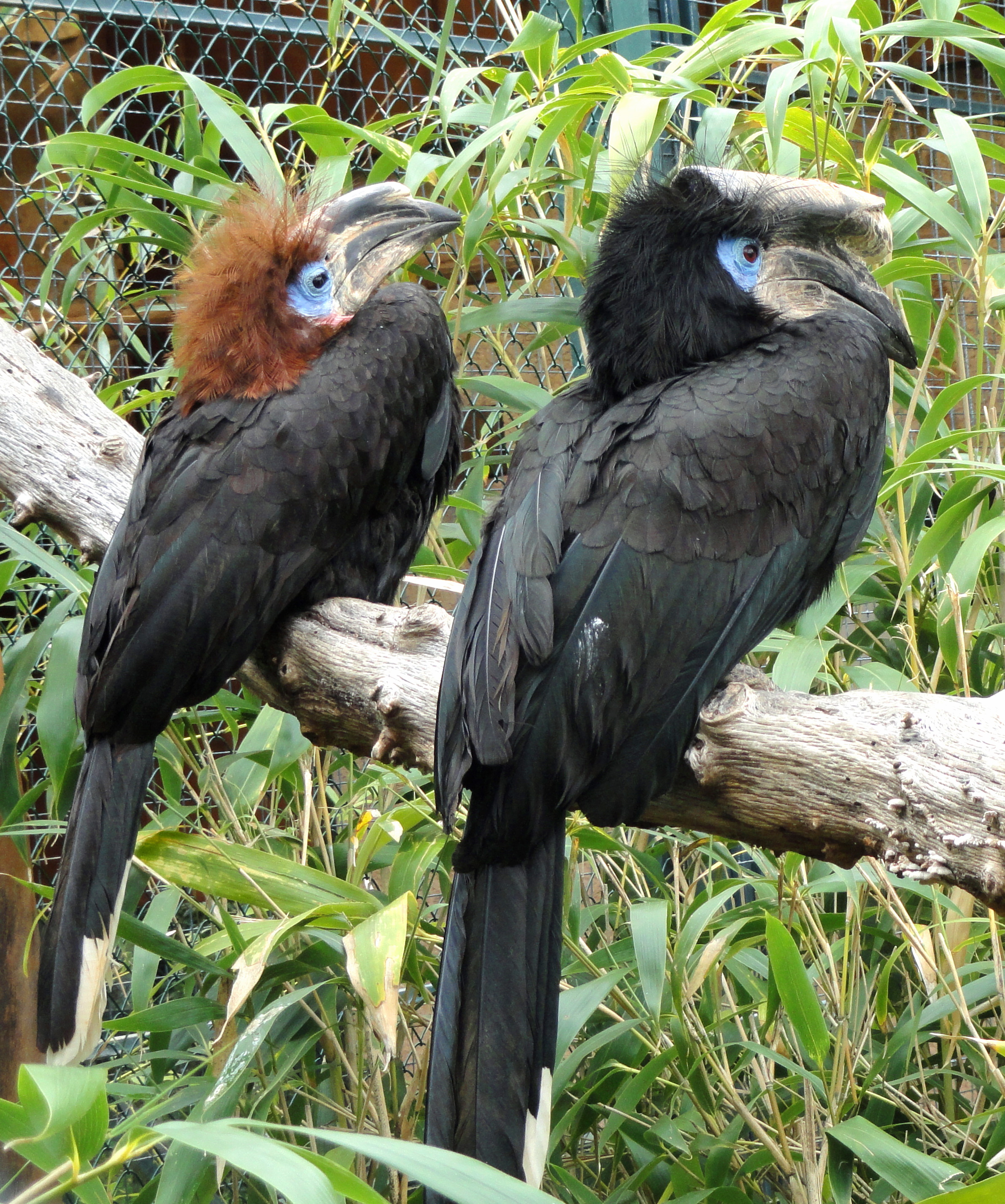 Ceratogymna atrata exhibited in the Jardin d'oiseaux tropicaux, La Londe-les-Maures, France.